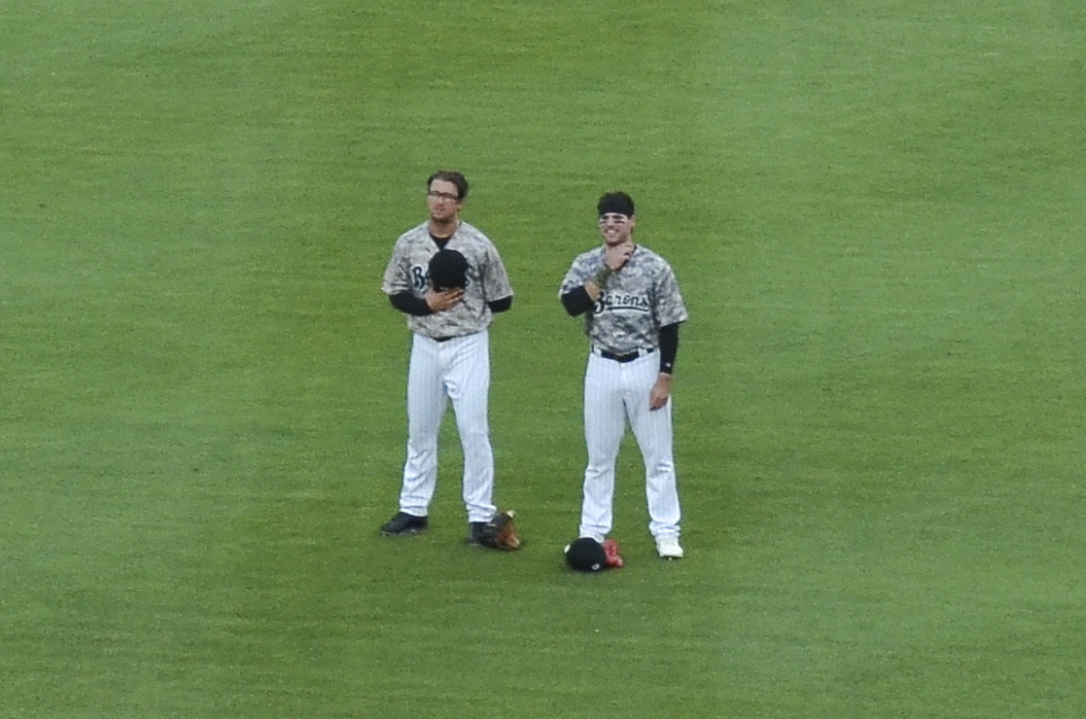 The 117th Air Refueling Wing Honor Guard and base volunteers perform a flag ceremony at the Birmingham Barons Military Appreciation Night, Regions Field, Birmingham, Ala. May 17, 2019. (U.S. Air National Guard photo by: Staff Sgt. Jim Bentley)